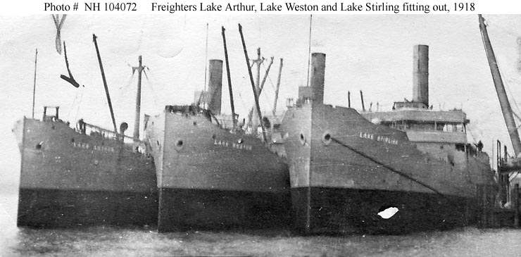 S.S. Lake Arthur (American Freighter, 1918), S.S. Lake Weston (American Freighter, 1918), and S.S. Lake Stirling (American Freighter, 1918) -- listed from left to right -- Fitting out at the Detroit Shipbuilding Company shipyard, Wyandotte, Michigan, circa Spring 1918. Originally named War Palm, and later named Virginia Limited, Lake Arthur served as USS Lake Arthur (ID # 2915) in 1918-1919. Lake Weston (originally named War Swift) served as USS Lake Weston (ID # 2926) in 1918. Lake Stirling (originally named War Thrush) had no World War I era U.S. Navy service.